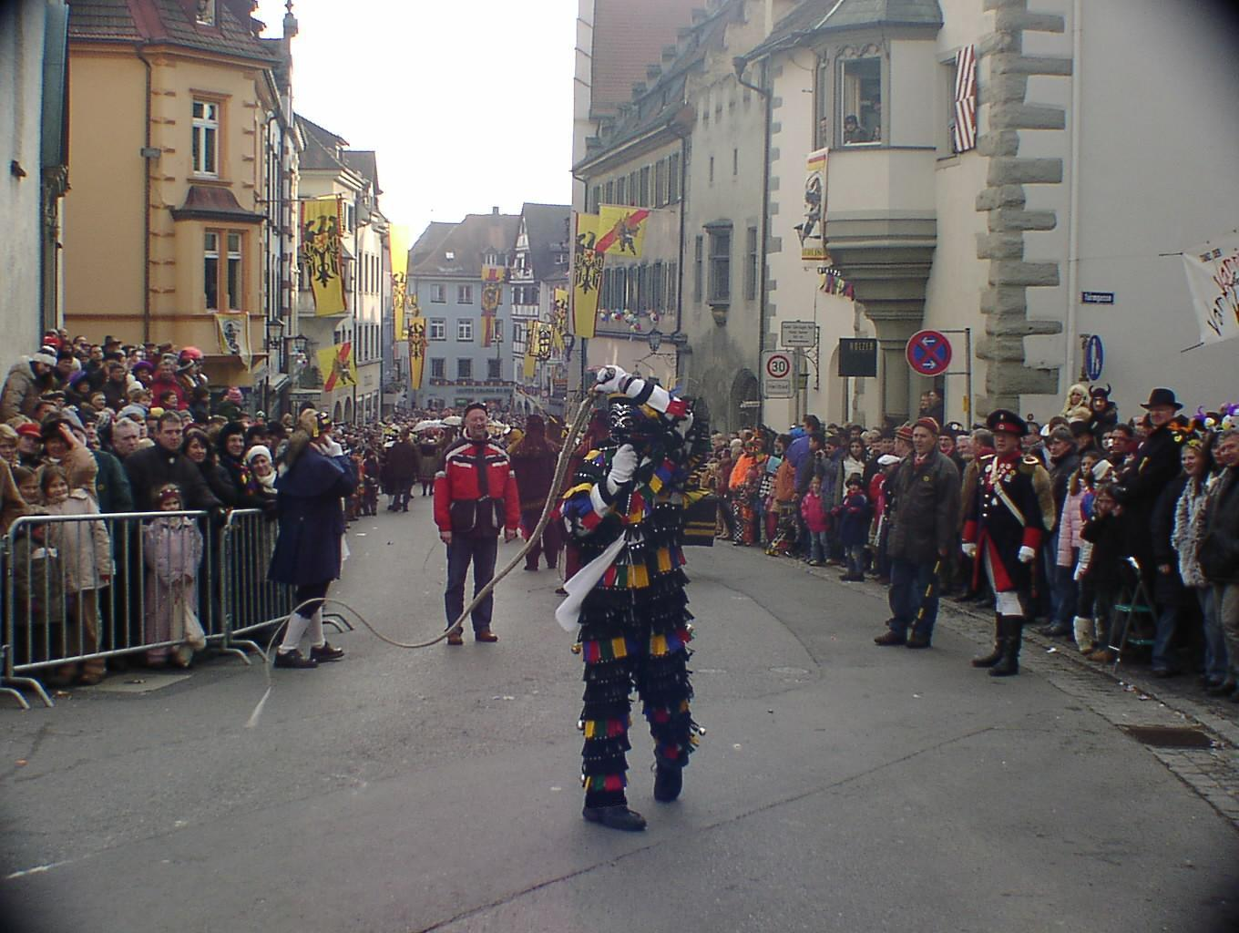 The Überlinger Hänsele during a carnival parade in Überlingen (Germany)